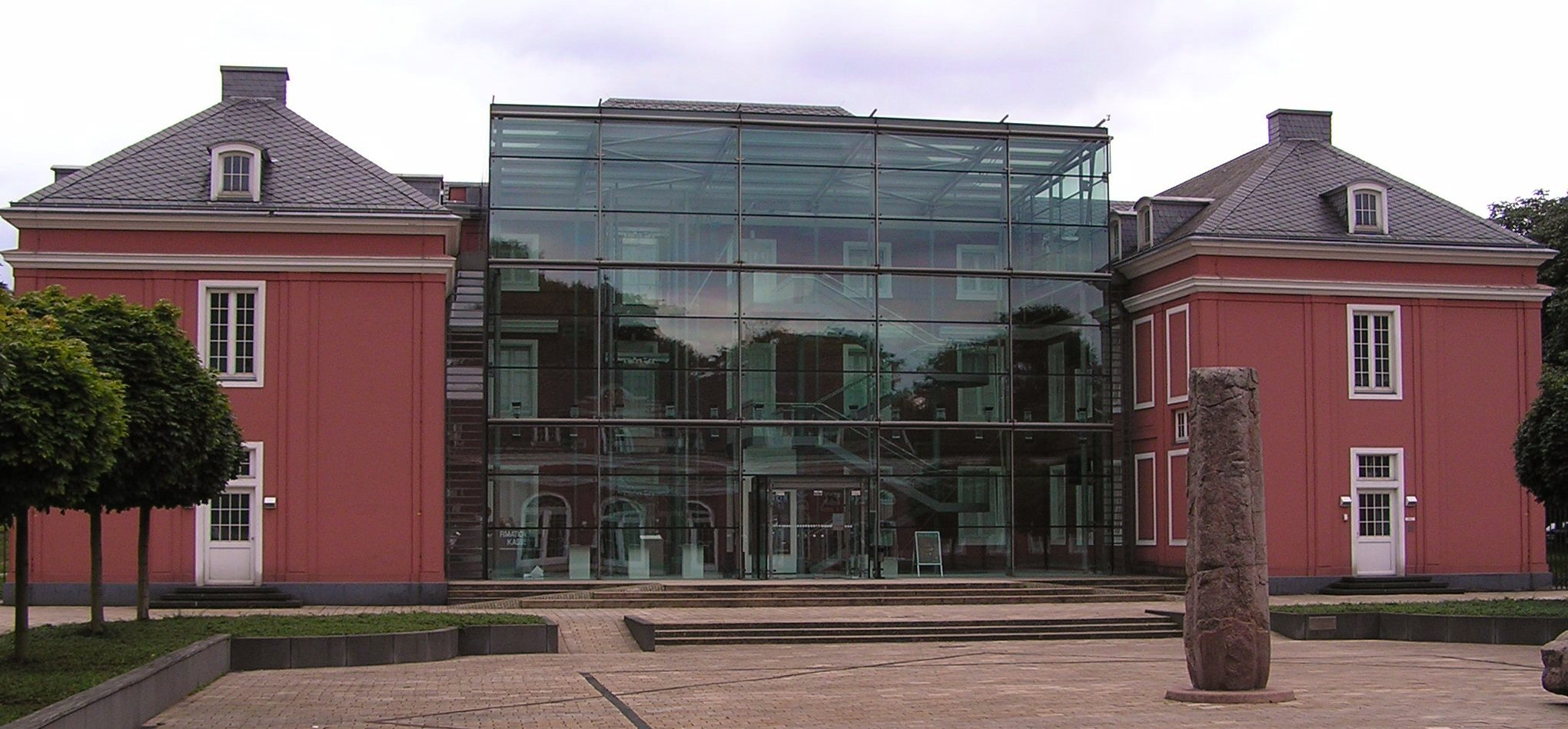 Main building of the castle and art museum "Schloss Oberhausen" from the inner courtyard, Oberhausen